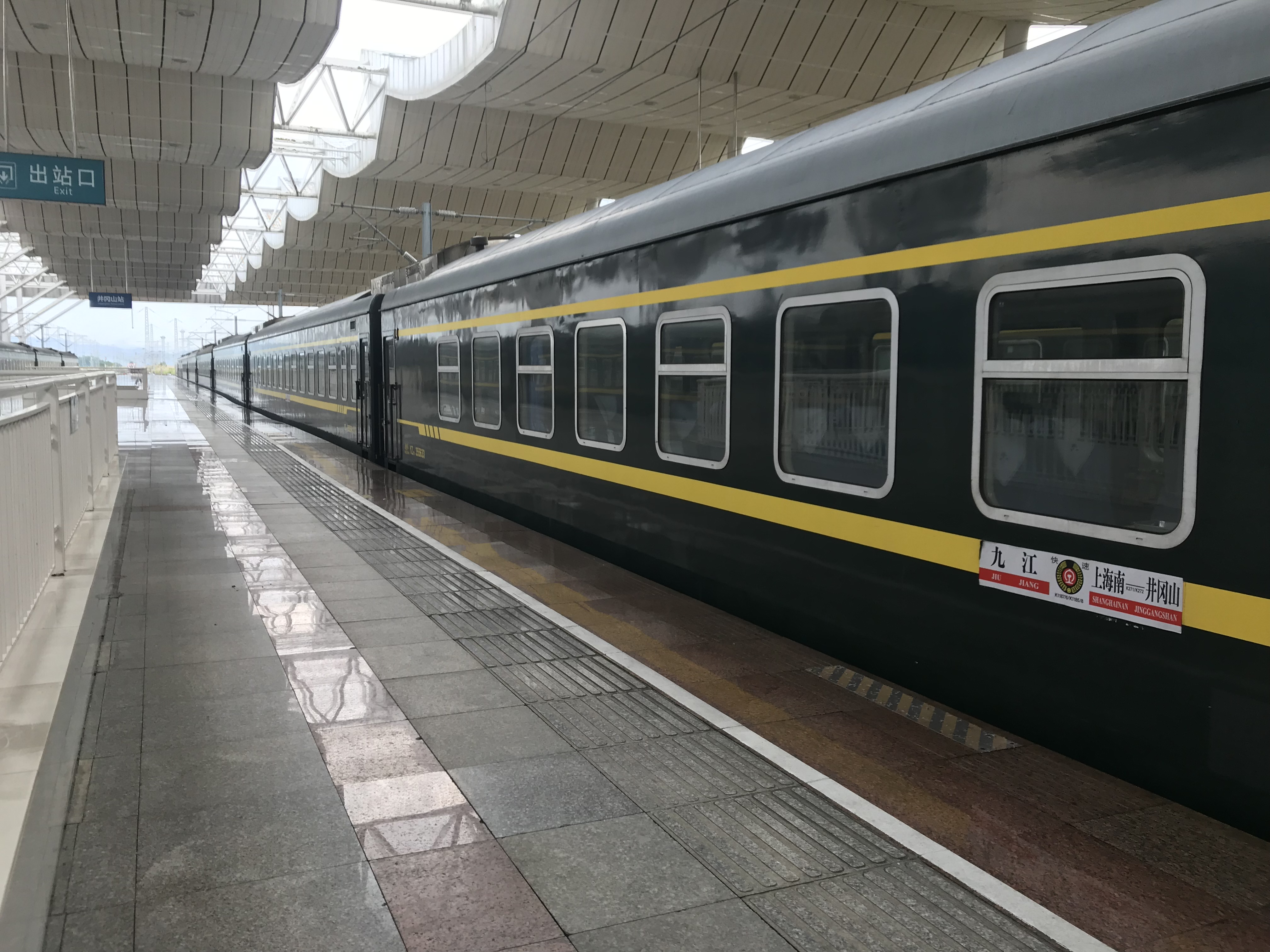 K272 Jinggangshan to Shanghainan